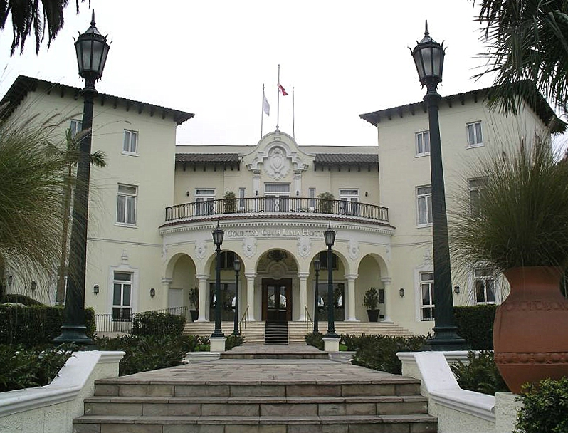 The Country Club Lima Hotel — Perú. Vintage grand hotel in the San Isidro District of Lima — Perú.